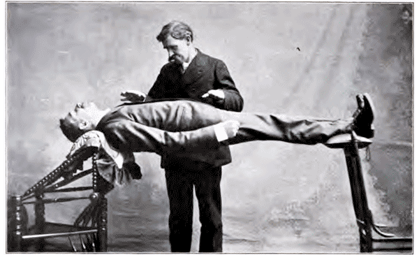 Catalepsy1